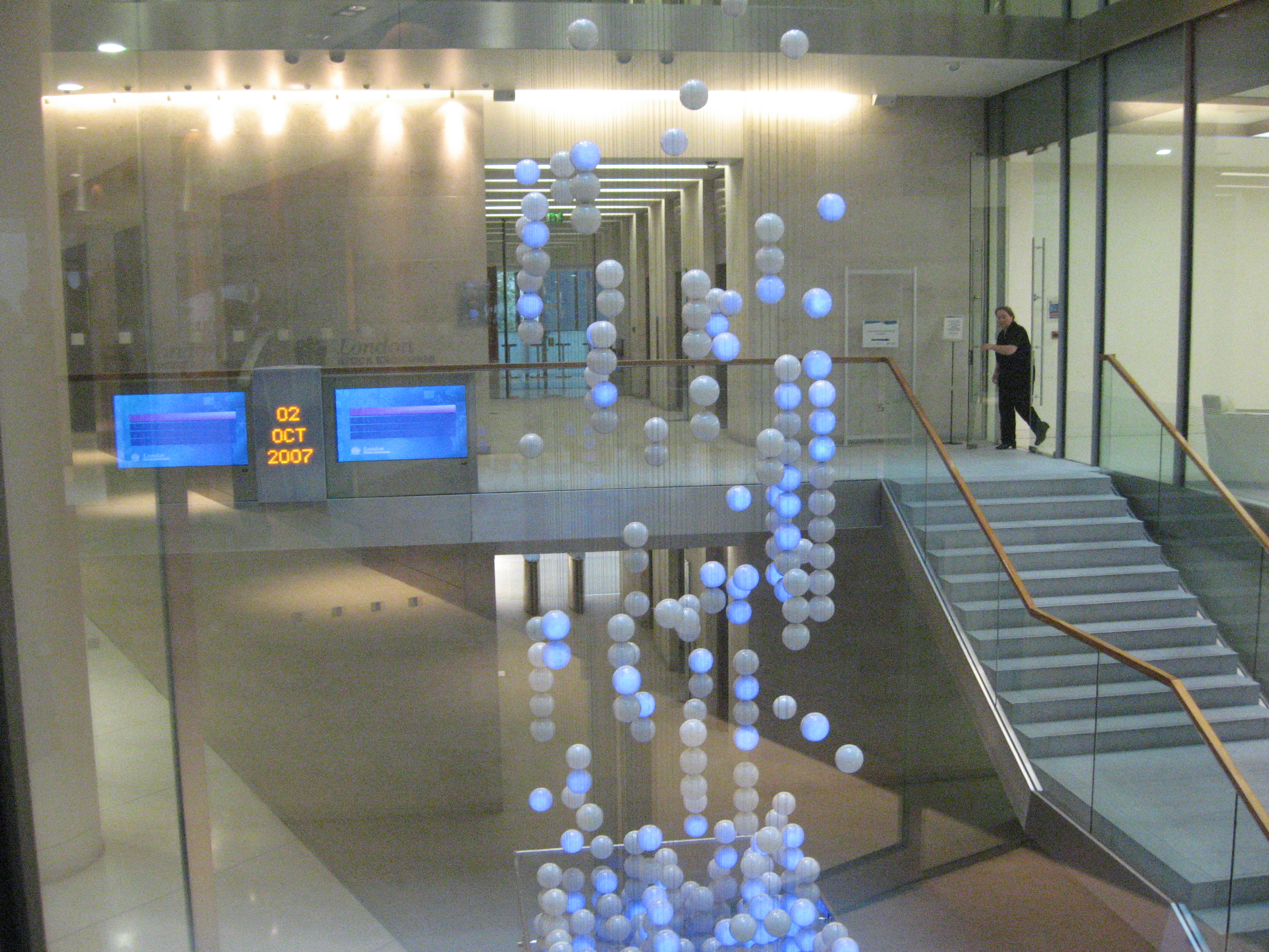 The Source, installed by artists Greyworld into the main atrium of the new London Stock Exchange in July 2004.